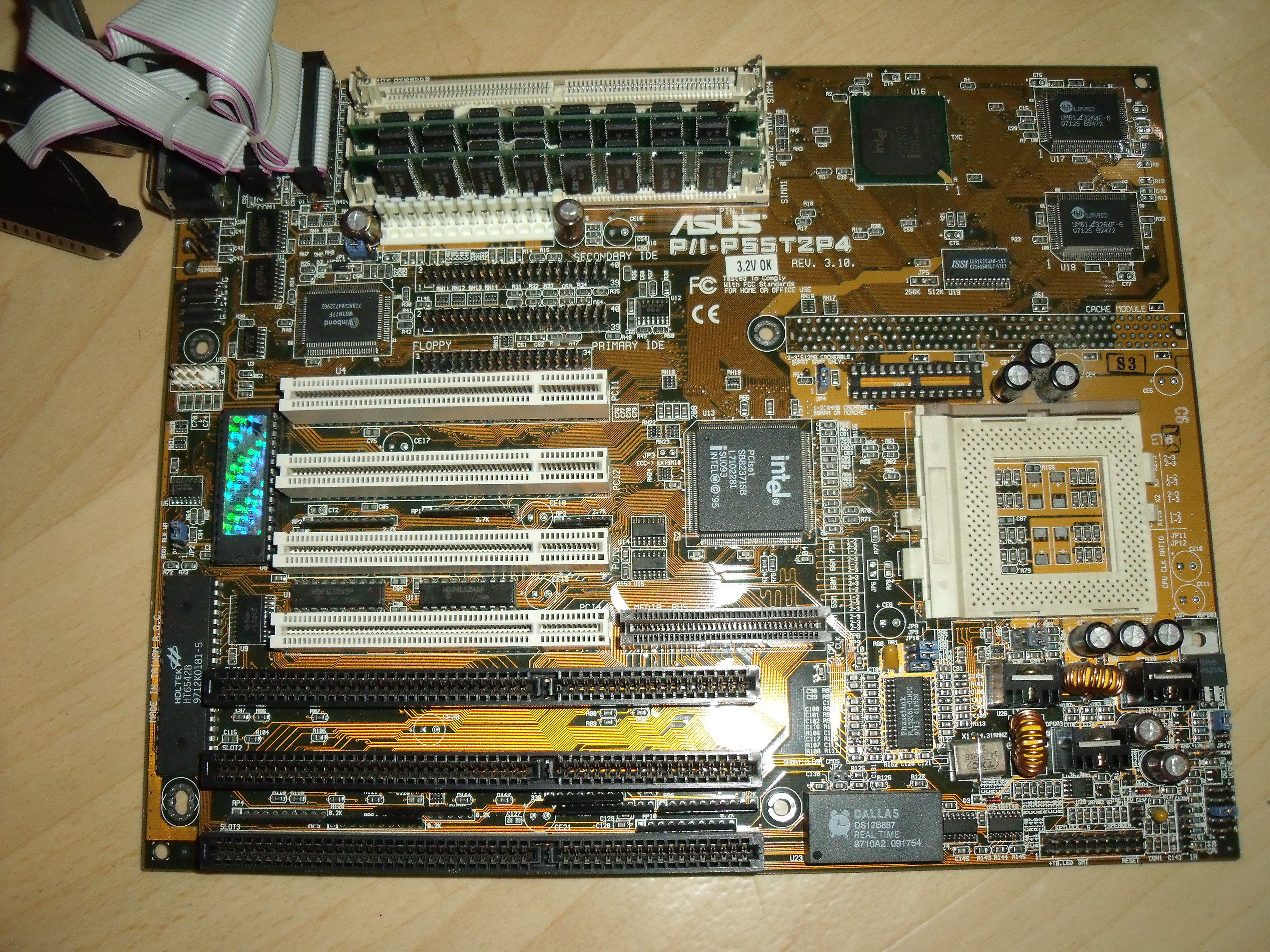 ASUS P/I-P55T2P4 REV. 3.10 motherboard with MEDIA BUS 2.0.